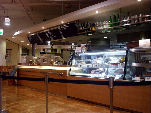 Inside of MUJI store in Kawaramachi, Kyoto, Japan.